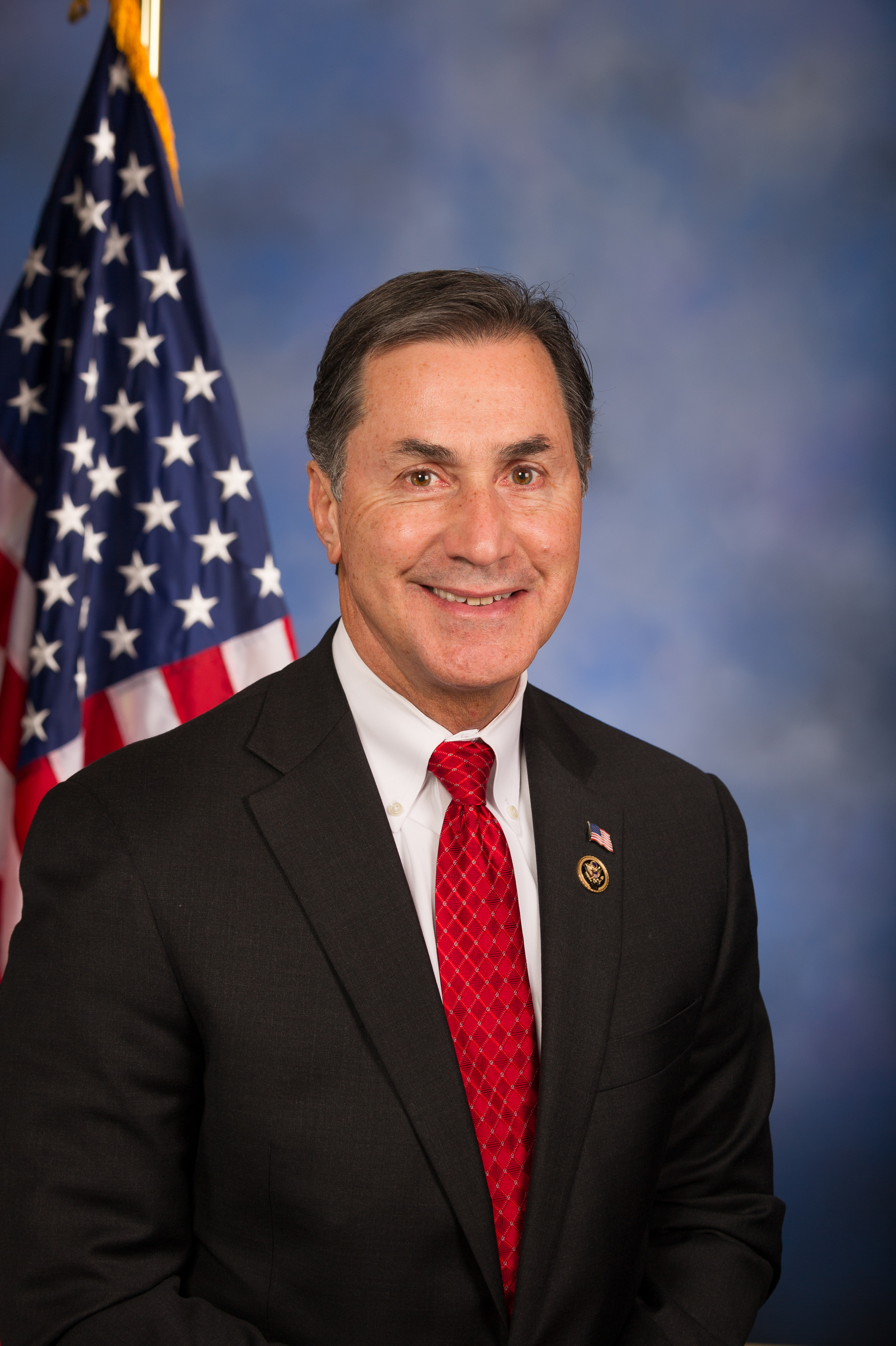 Gary Palmer official photo, 114th Congress